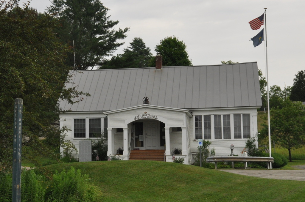 Town offices, East Montpelier, Vermont.